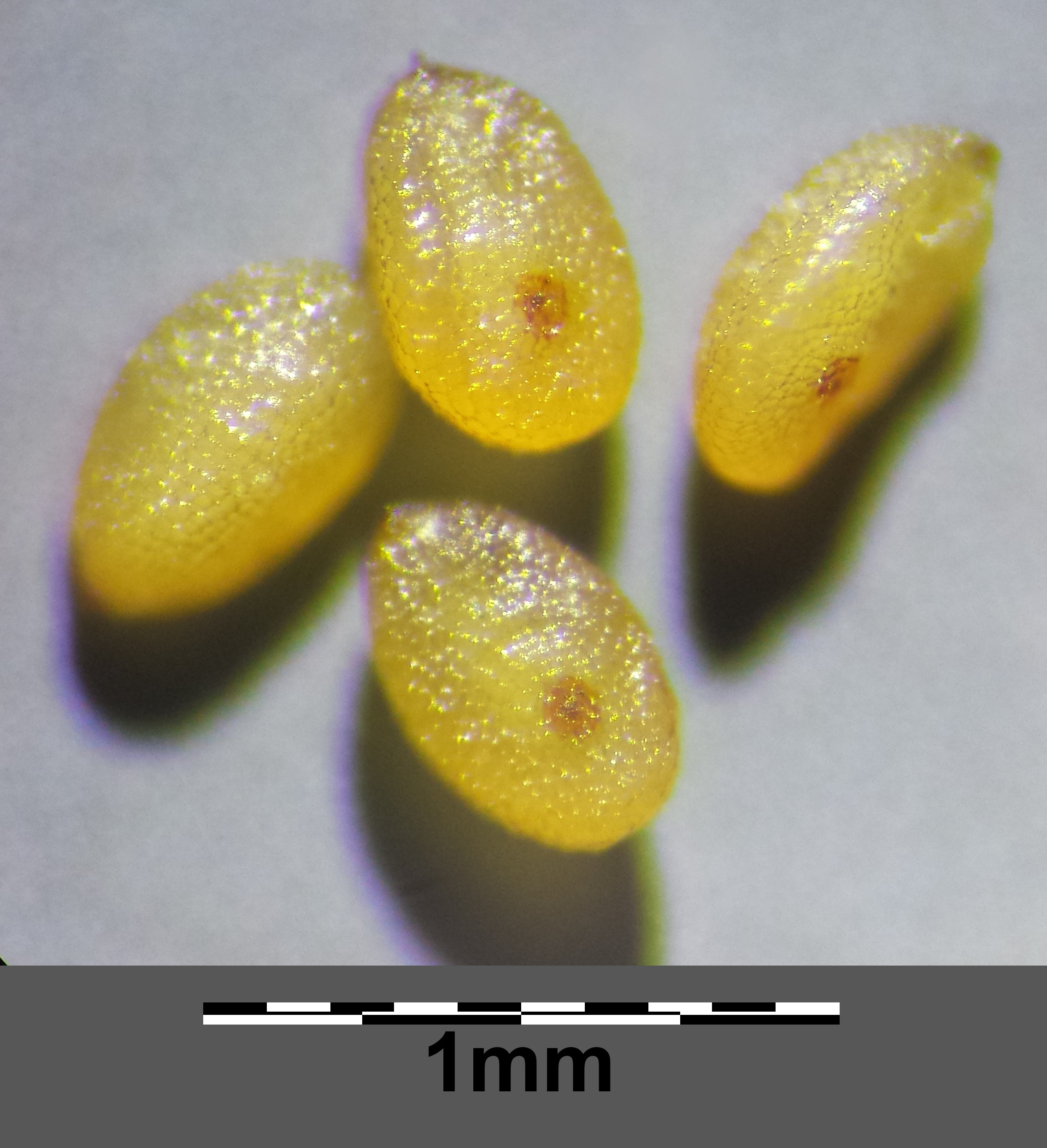 Seeds Taxonym: Veronica catenata ss Fischer et al. EfÖLS 2008 ISBN 978-3-85474-187-9 Location: pond near Goldenes Bründl, Rohrwald, district Korneuburg, Lower Austria - ca. 225 m a.s.l. Habitat: shore of a pond